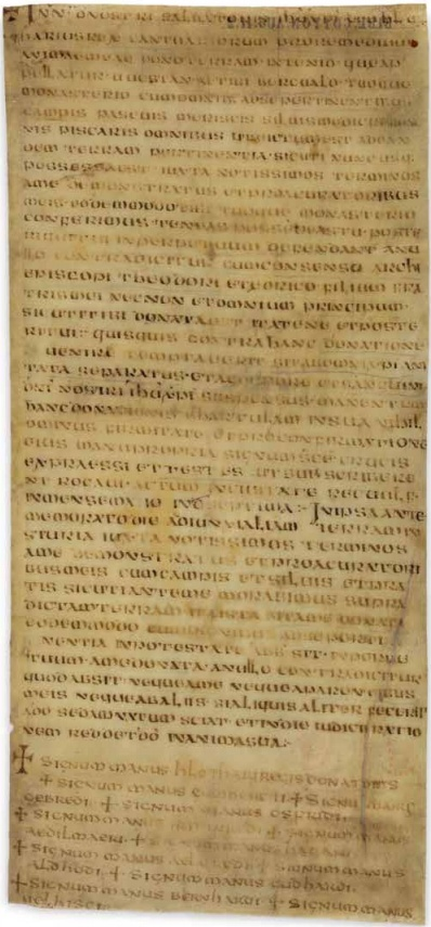 S 8 Charter of King Hlothhere of Kent AD 679 (BL Cotton MS Augustus II 2)